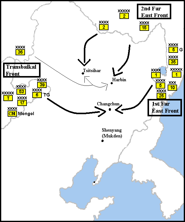 Map of Manchuria showing the Soviet strategy and plan for its invasion. Manchuria China Soviet Japanese War of 1945 Second World War